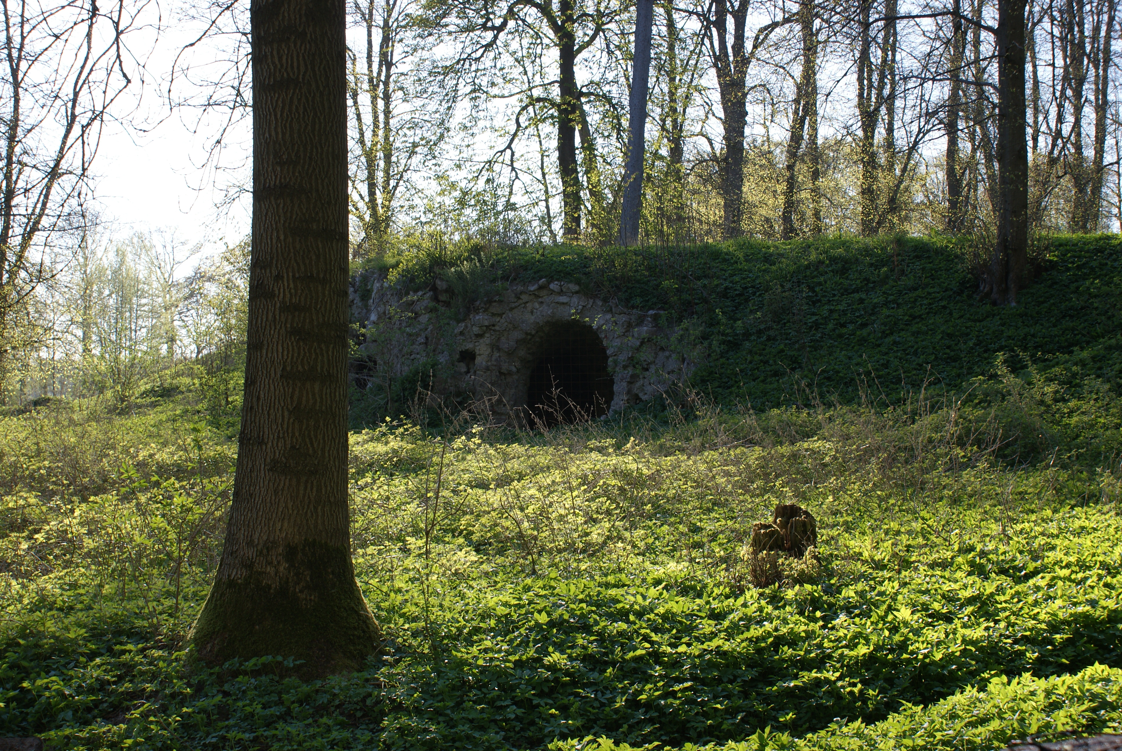 The ruins of the grotto at formerly Traventhal Palace